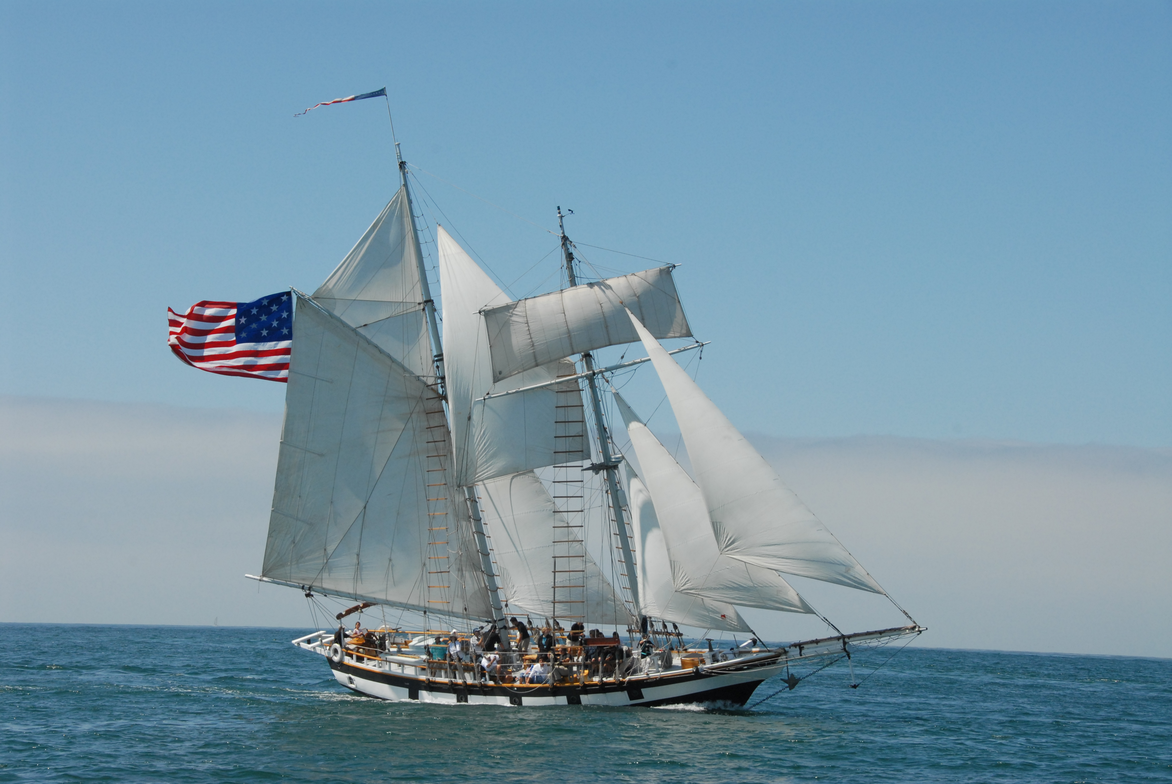 Amazing Grace Tall Ship sailing in Pacific Ocean Amazing Grace, tall ship parade, San Diego Bay. (Photos: Dale Frost)